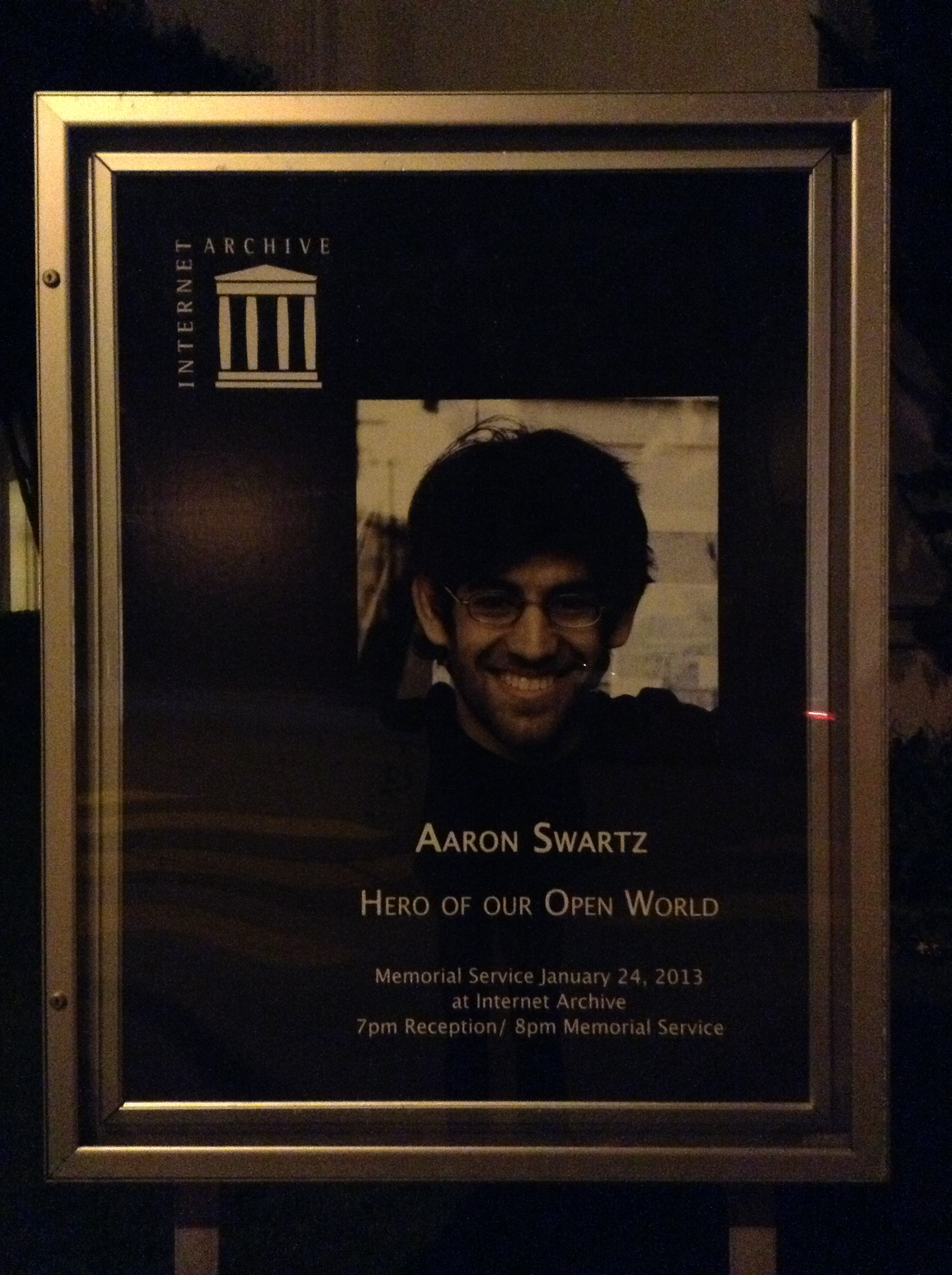 Outdoor sign at the Internet Archive